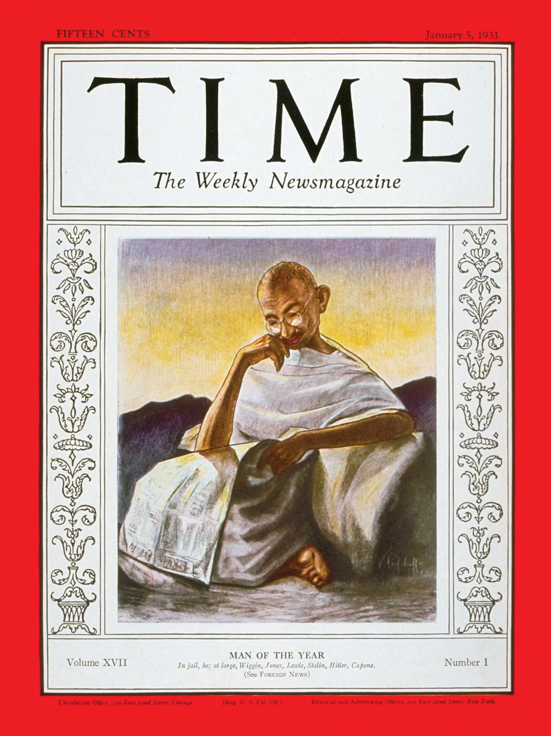 Mahatma Gandhi on Time cover 1931.